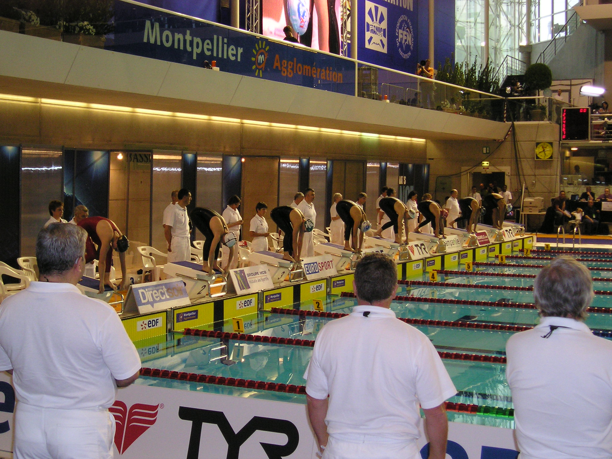 French Swimming Championships, Montpellier, 26 April 2009 afternoon: start of the 100 meter Breaststroke Women finale. Winner and new France Record on line 3: Fanny Babou.